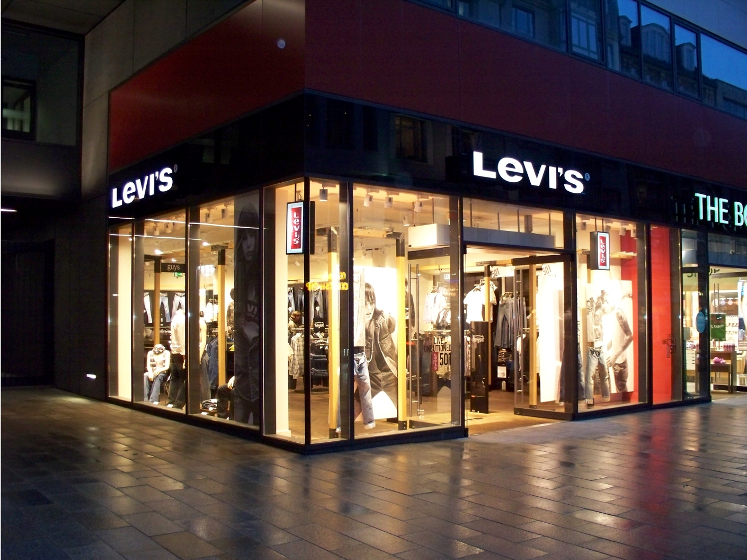 Ein Levi's store in Leipzig.